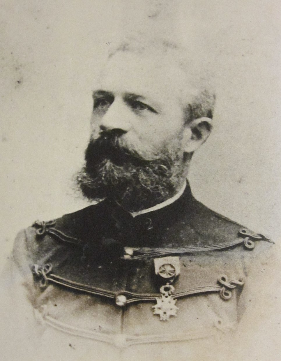 Général Holender